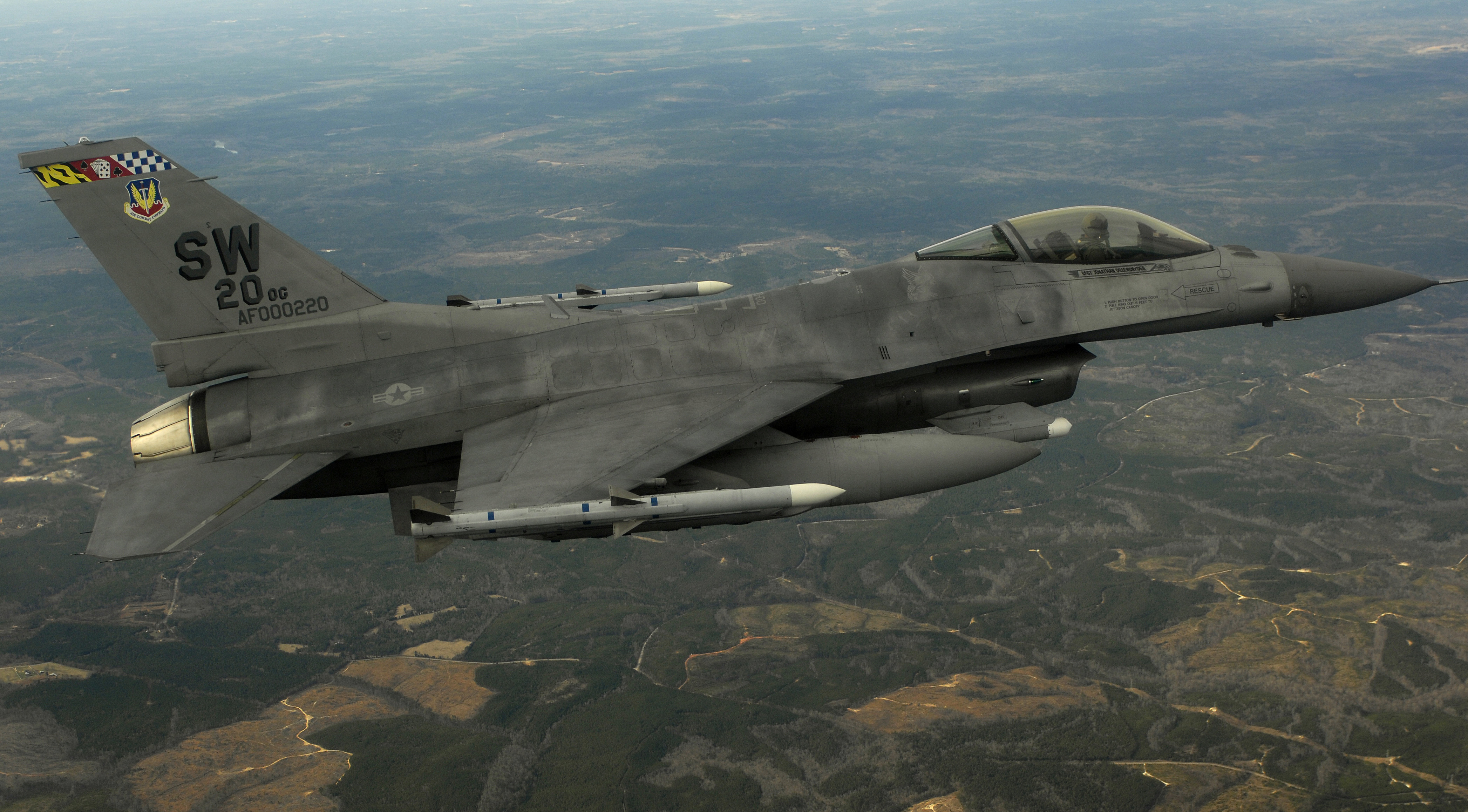 U.S. Air Force Col. James W. Hyatt, commander of the 20th Fighter Wing, flies an F-16CJ Fighting Falcon aircraft, Feb. 23, 2007, during his final flight as wing commander at Shaw Air Force Base, S.C. Hyatt served as the senior officer responsible for organizing, training, and equipping a 19-squadron wing with three F-16CJ fighter squadrons.